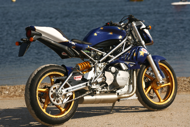 Cafe Racers & Superbikes Vun for the french official dealer